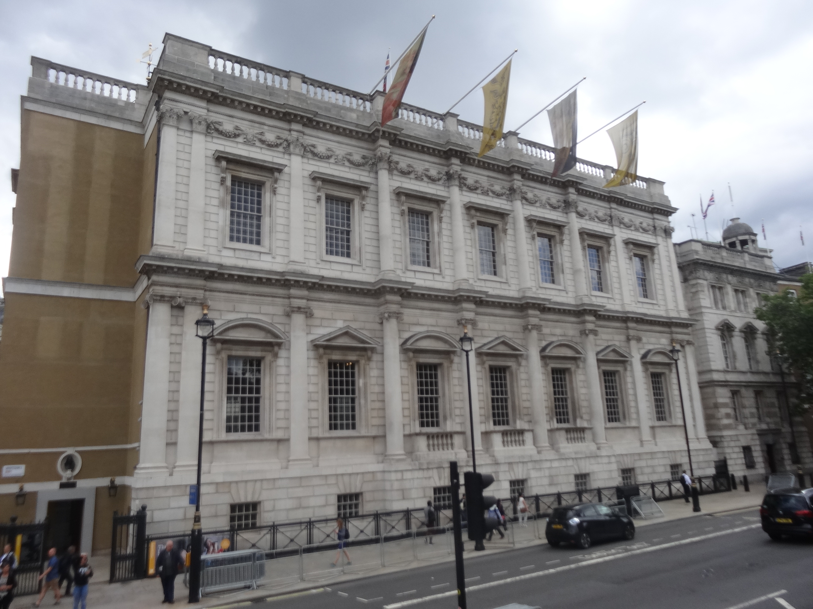 Banqueting House